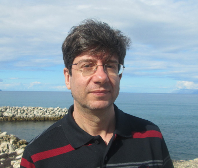 A photograph of the GM Vasileios Kotronias